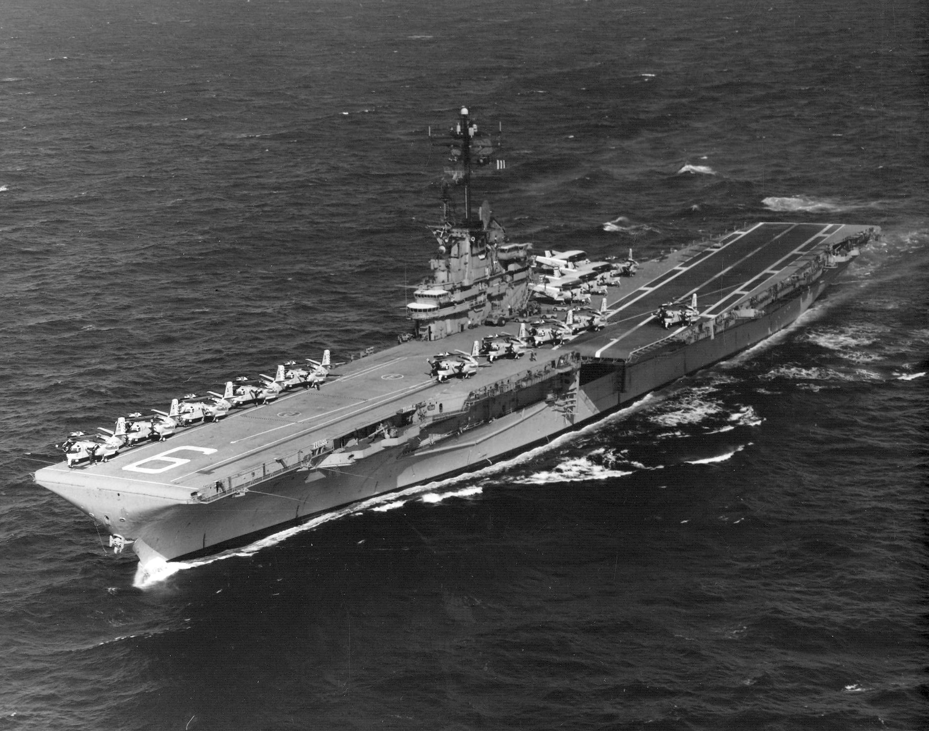 The U.S. Navy aircraft carrier USS Essex (CVS-9) underway in the Atlantic Ocean on 22 June 1967. Essex, with assigned Carrier Anti-Submarine Air Group 54 (CVSG-54), was deployed to the North Atlantic and the Mediterranean Sea from 29 May to 22 September 1967.